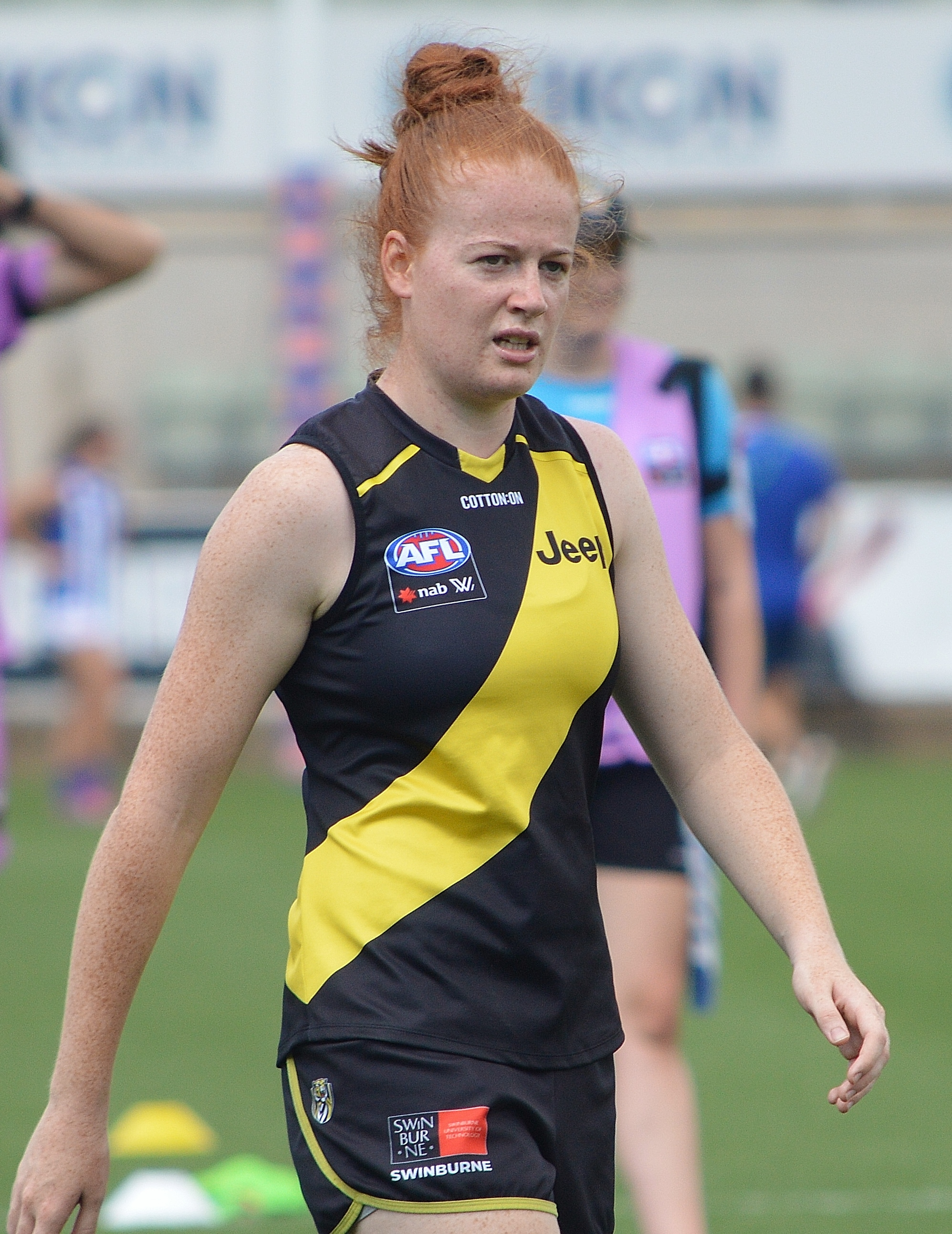 Sophie Molan with Richmond during the round 3, 2020 AFL Women's match against North Melbourne at Ikon Park.